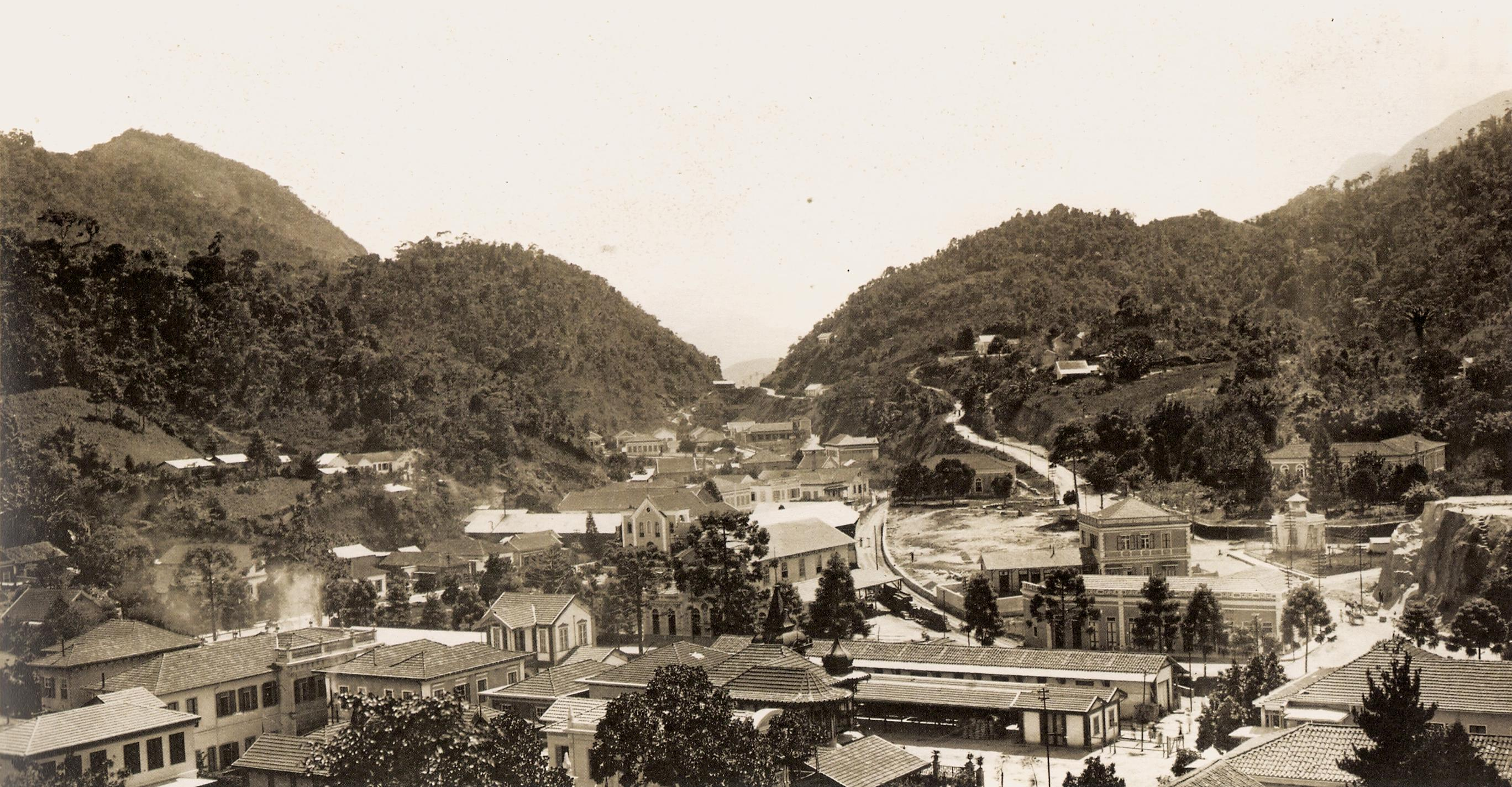 City of Petrópolis, 1889.